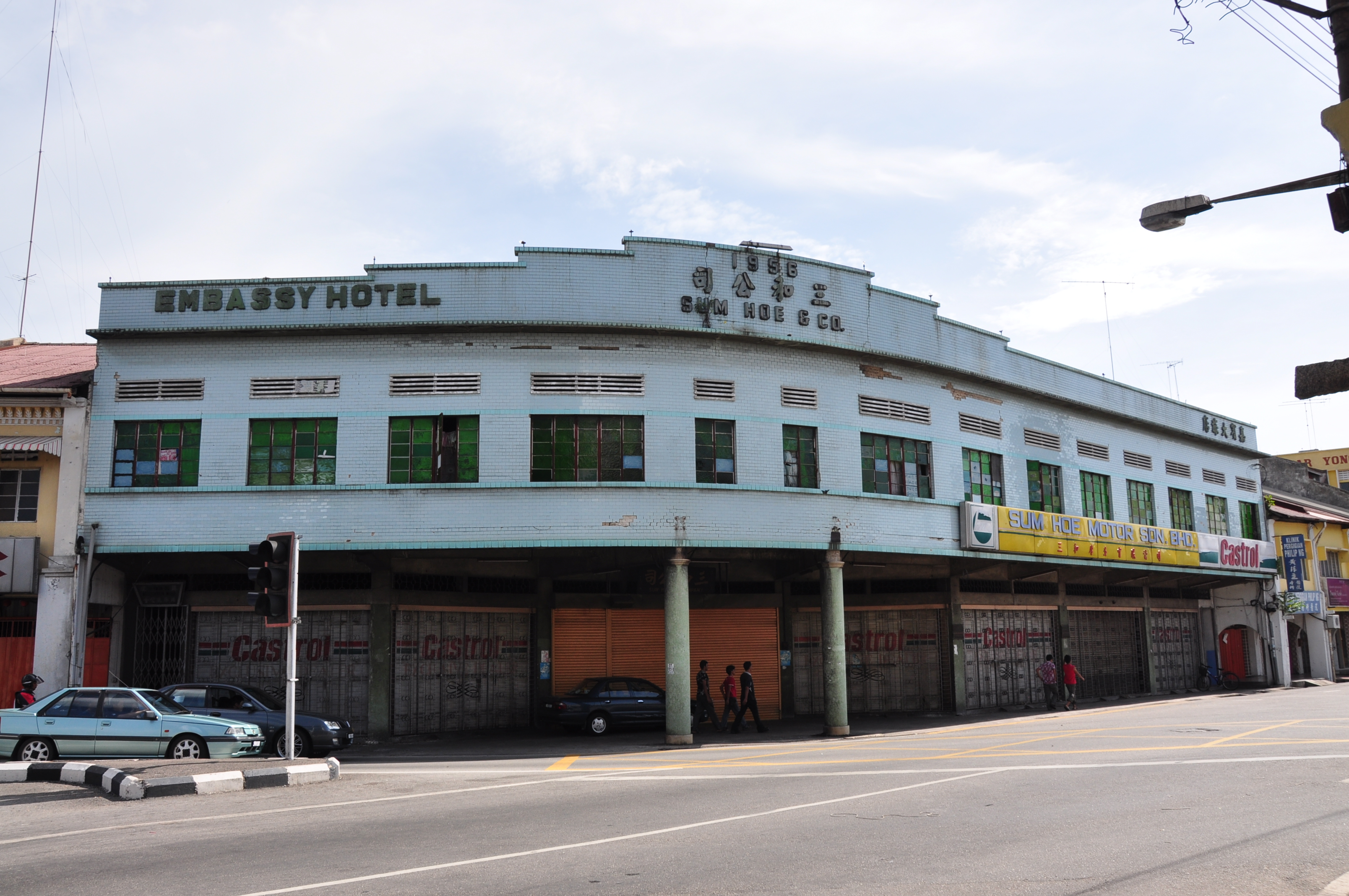 Embassy Hotel in Muar. Founded in 1956 by Sum Hoe & Co.